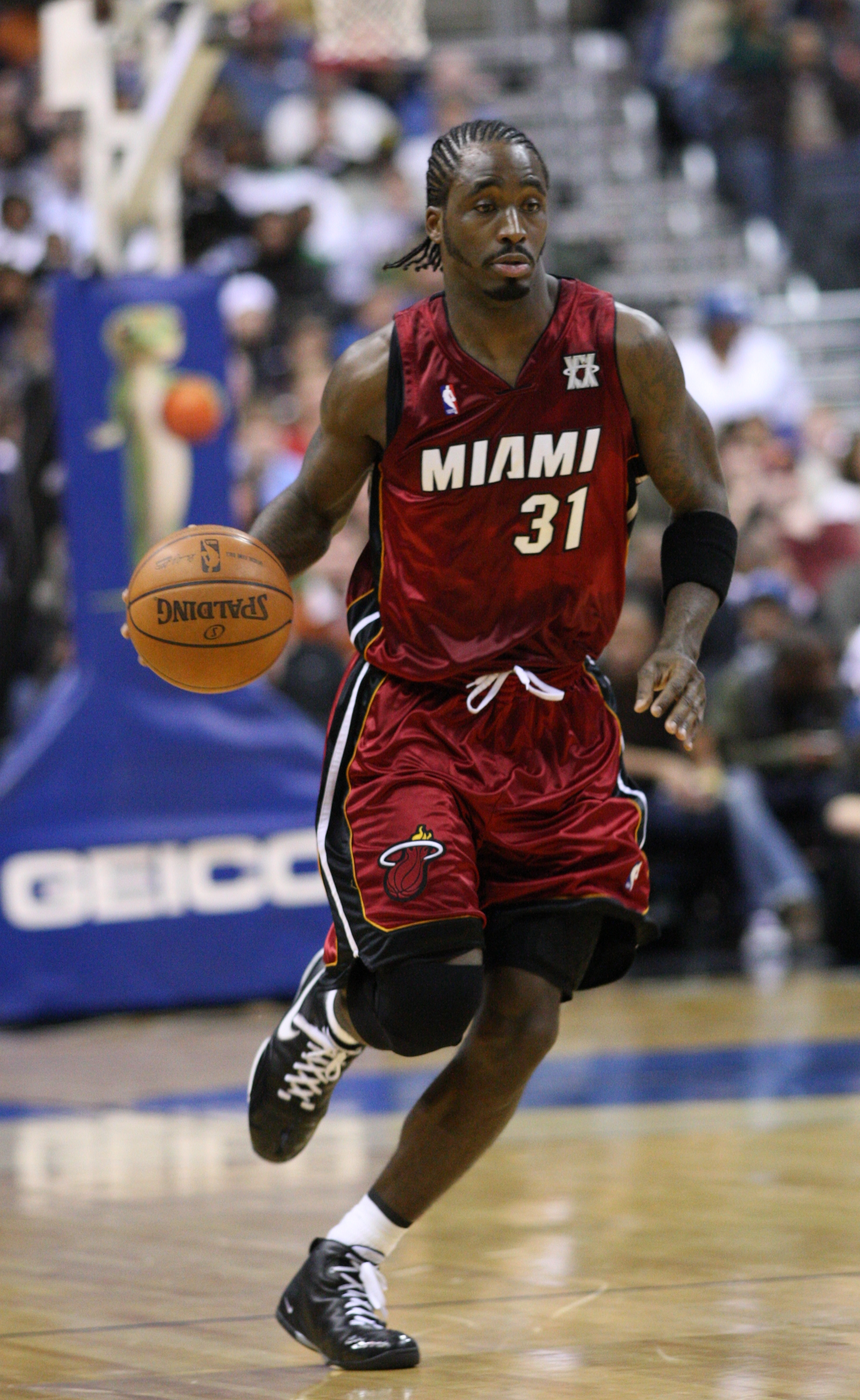 Ricky Davis, American basketball player for the Miami Heat (at time of photo)